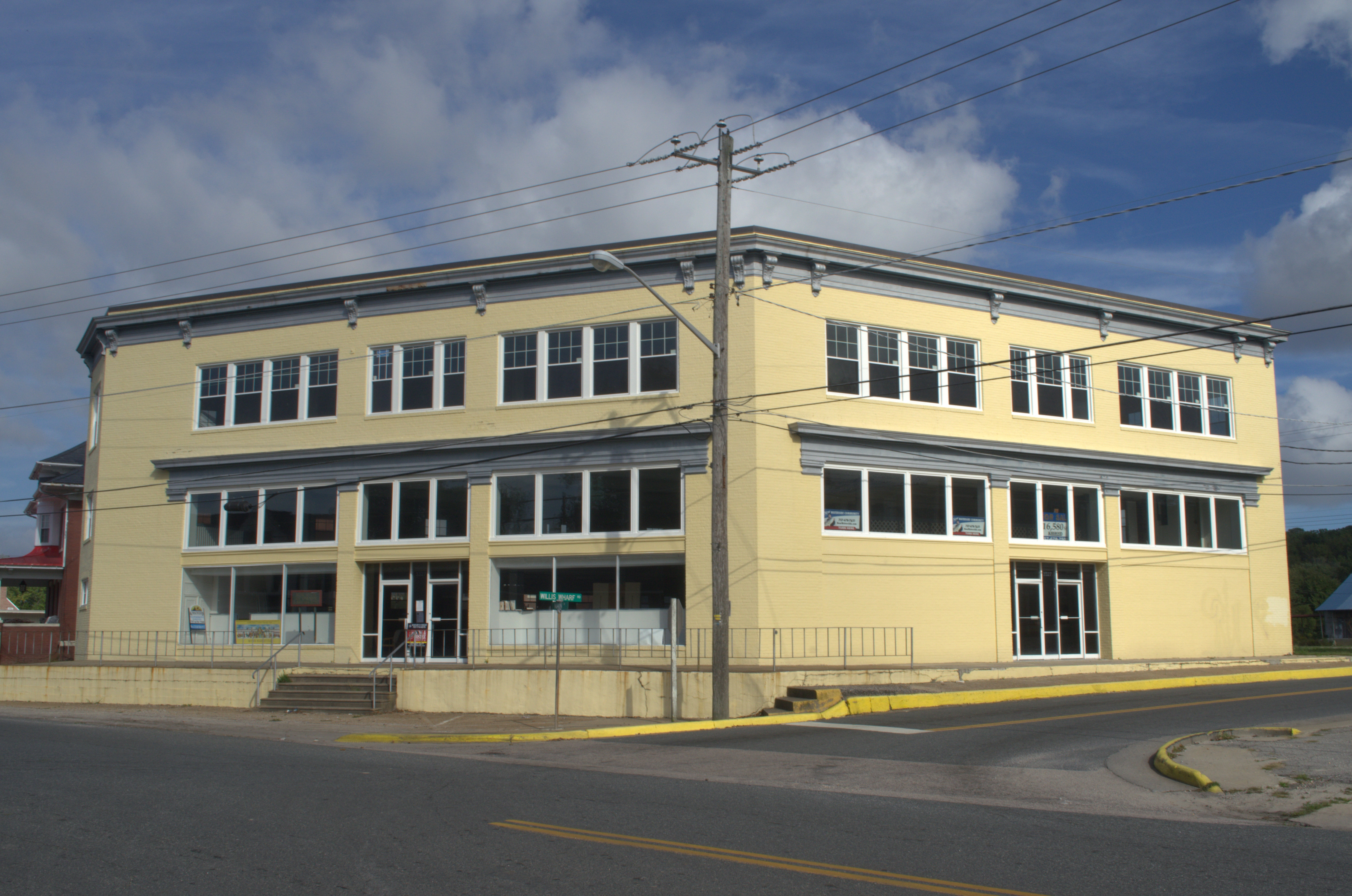 Benjamin